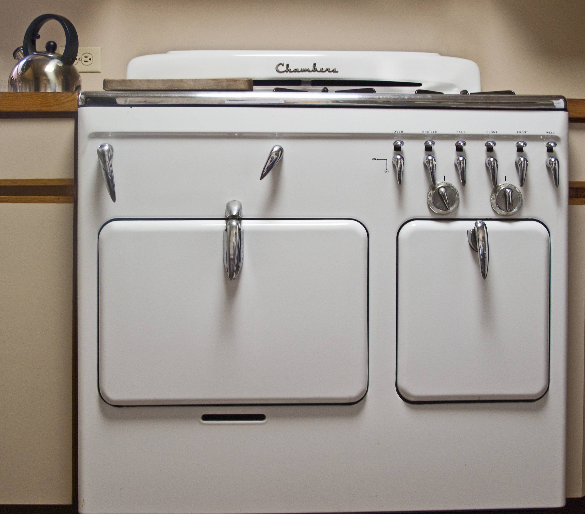 Vintage Chambers stove, in mint condition and in daily use, New York City.